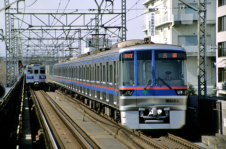 Toei Mita Line 6300 Series EMU on between Shin-Takashimadaira and Nishi-Takashimadaira